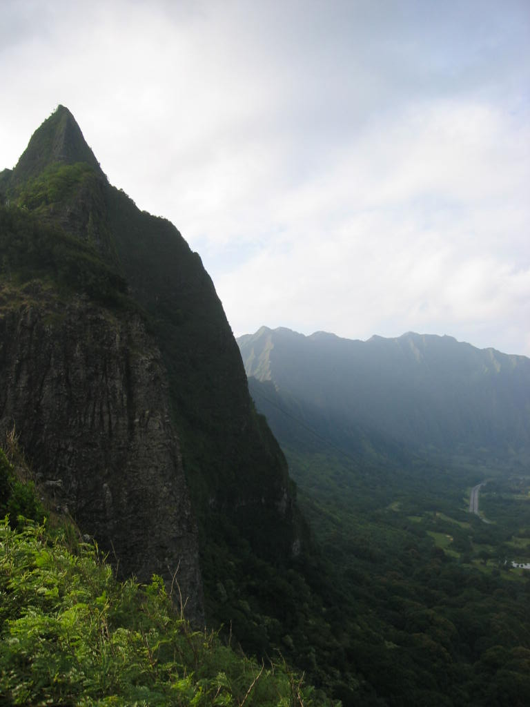 View from Pali Lookout in Oahu, Hawaii